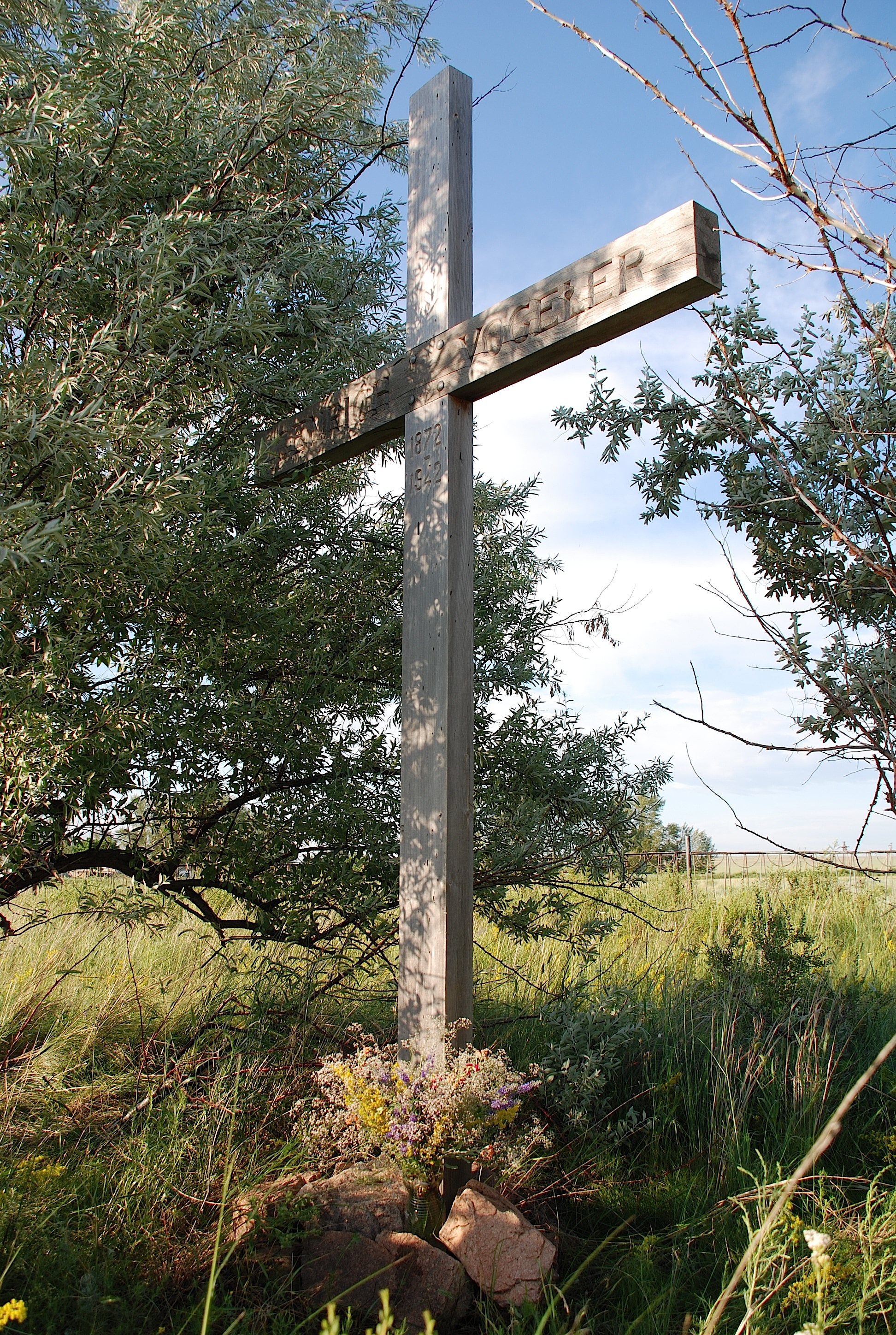 Memorial cross for Heinrich Vogeler at the place of the former Kolkhoz Budyonny (колхоз «Будённый») in the collective municipality Kornejewka (Корнеевка) in the Province of Karaganda (Карагандинская област) in Kazakhstan